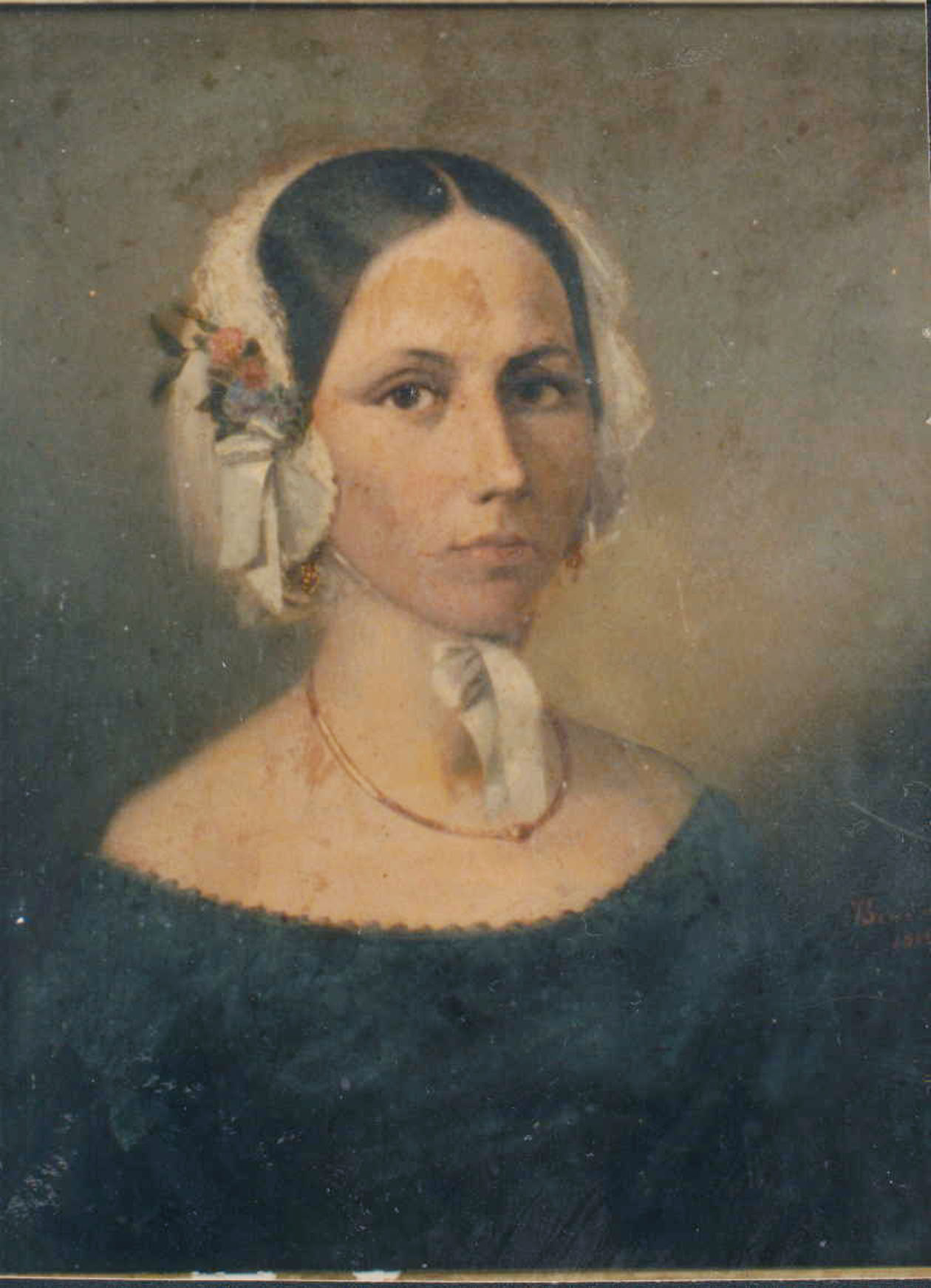 Processed photograph of a 19th century painting of D. Felismina Maria Filgueiras in possession of the Souza Brasil family. This copy was given to famadoria by Vittorio, Marchese Pareto.